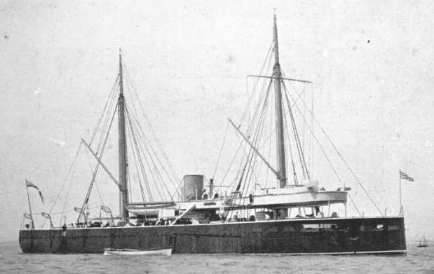 Photograph of British coast defence ironclad HMS Prince Albert.